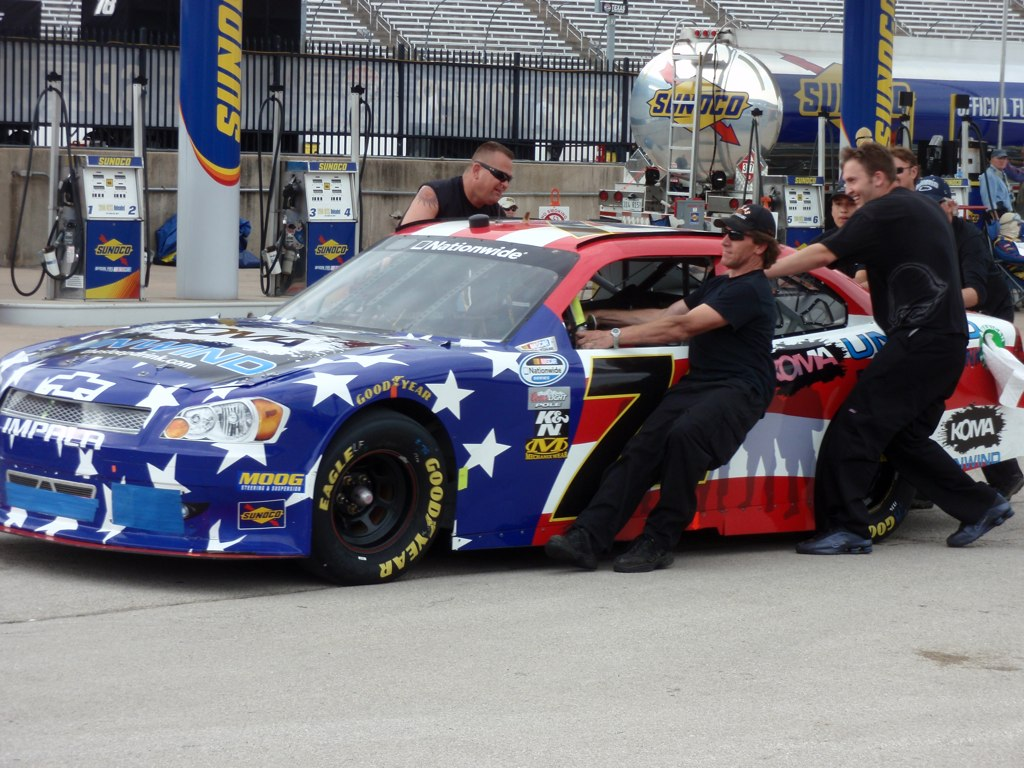 Kevin Lepage's No. 74 Chevrolet is pushed through the garage during practice for the 2012 O'Reilly Auto Parts 300 at Texas Motor Speedway.